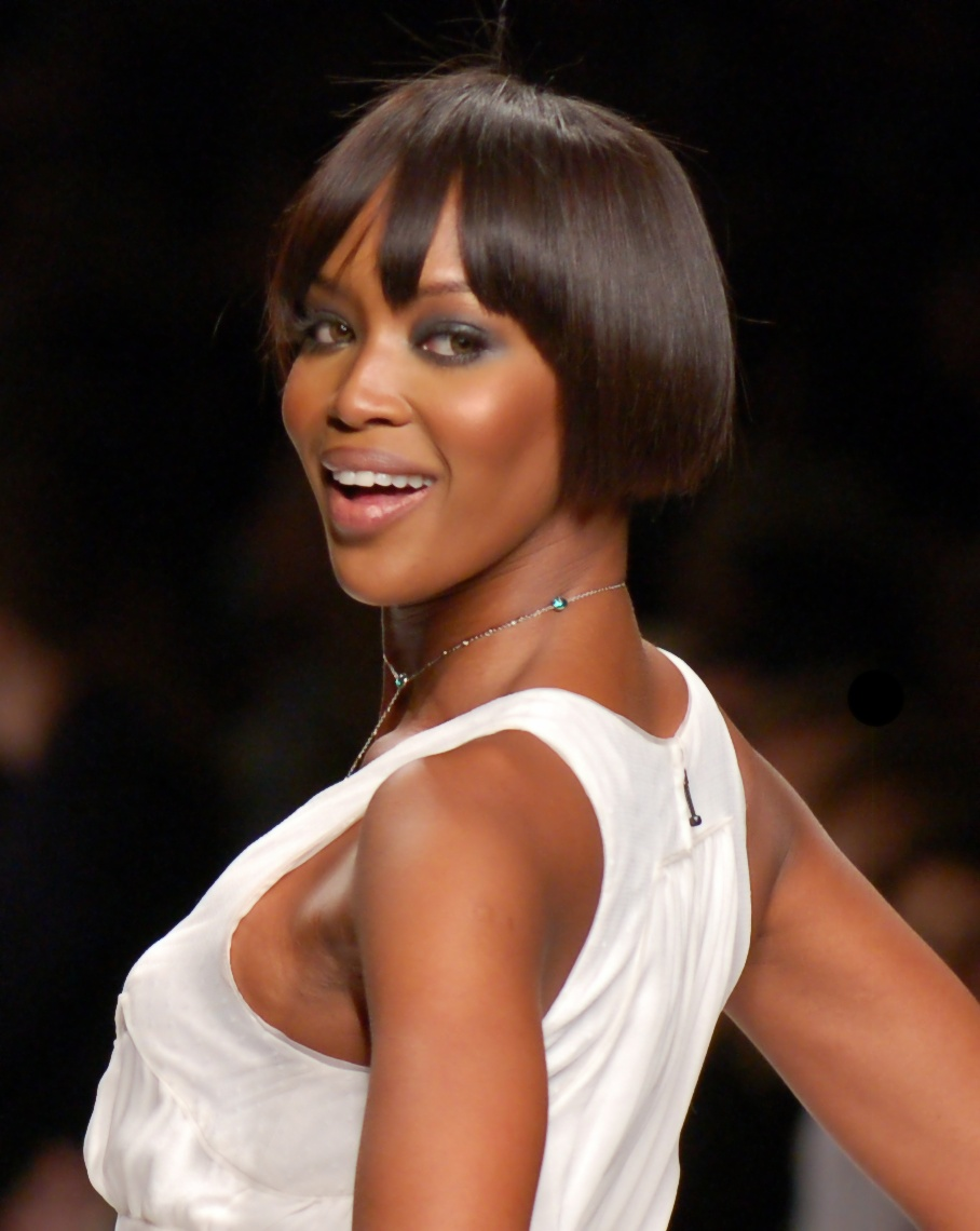 Naomi Campbell at FashionWeekLive in San Francisco, March 15, 2007. Photo by Jesse Gross.